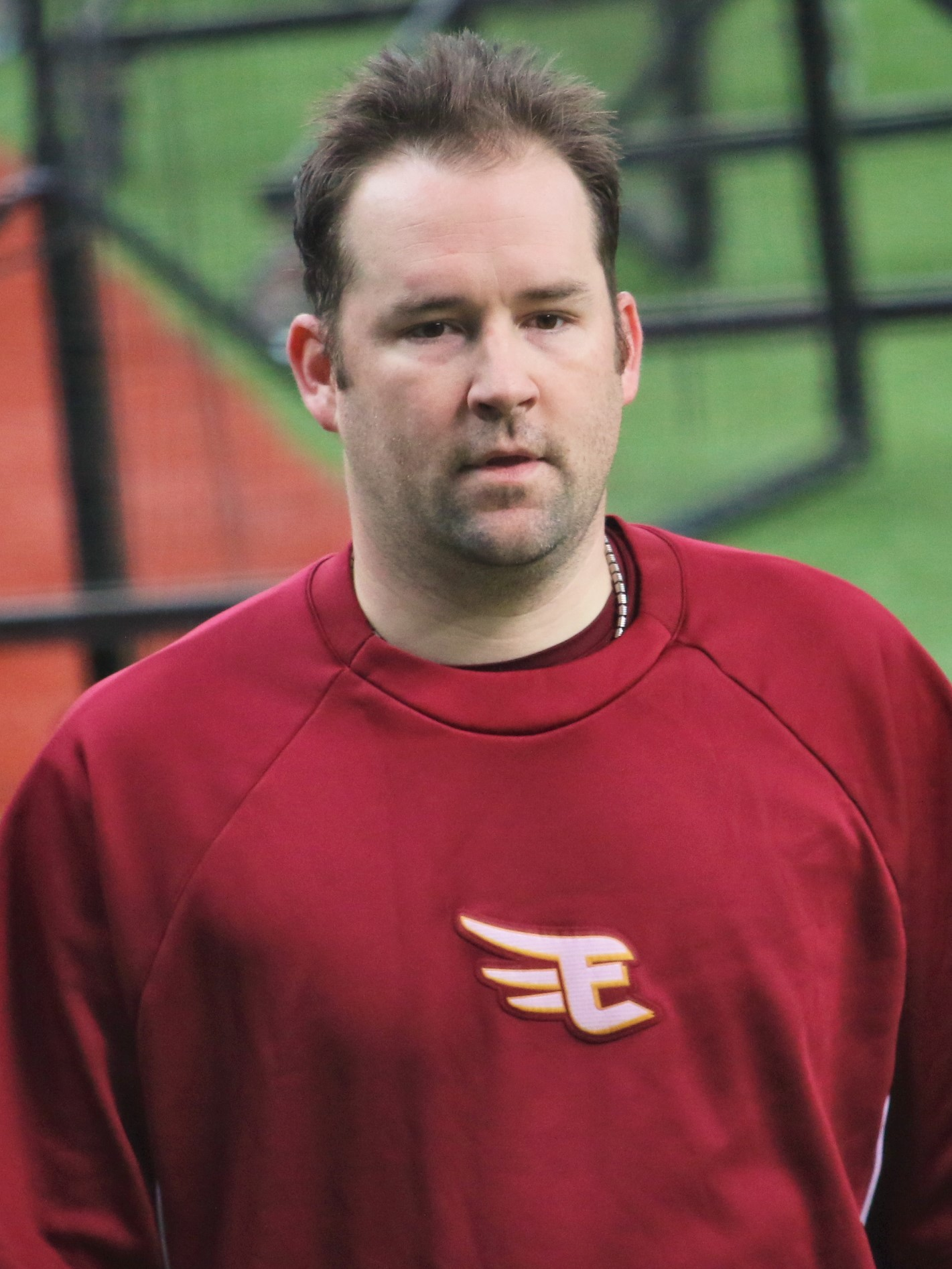 Brian Falkenborg, pitcher of the Tohoku Rakuten Golden Eagles, at Osaka Dome.